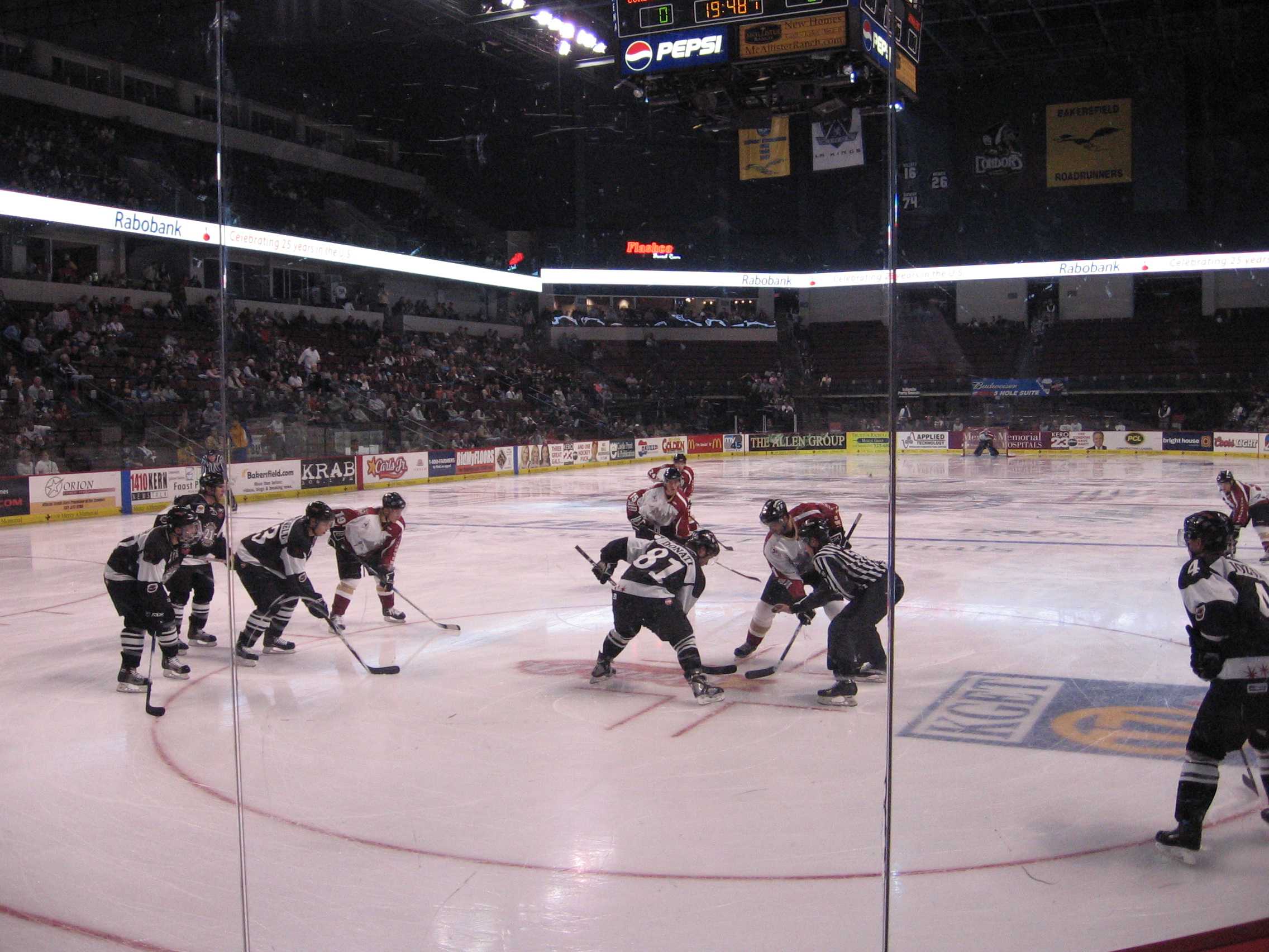 Bakersfield Condors vs. Las_Vegas Wranglers, #81 Justin Donati faces off